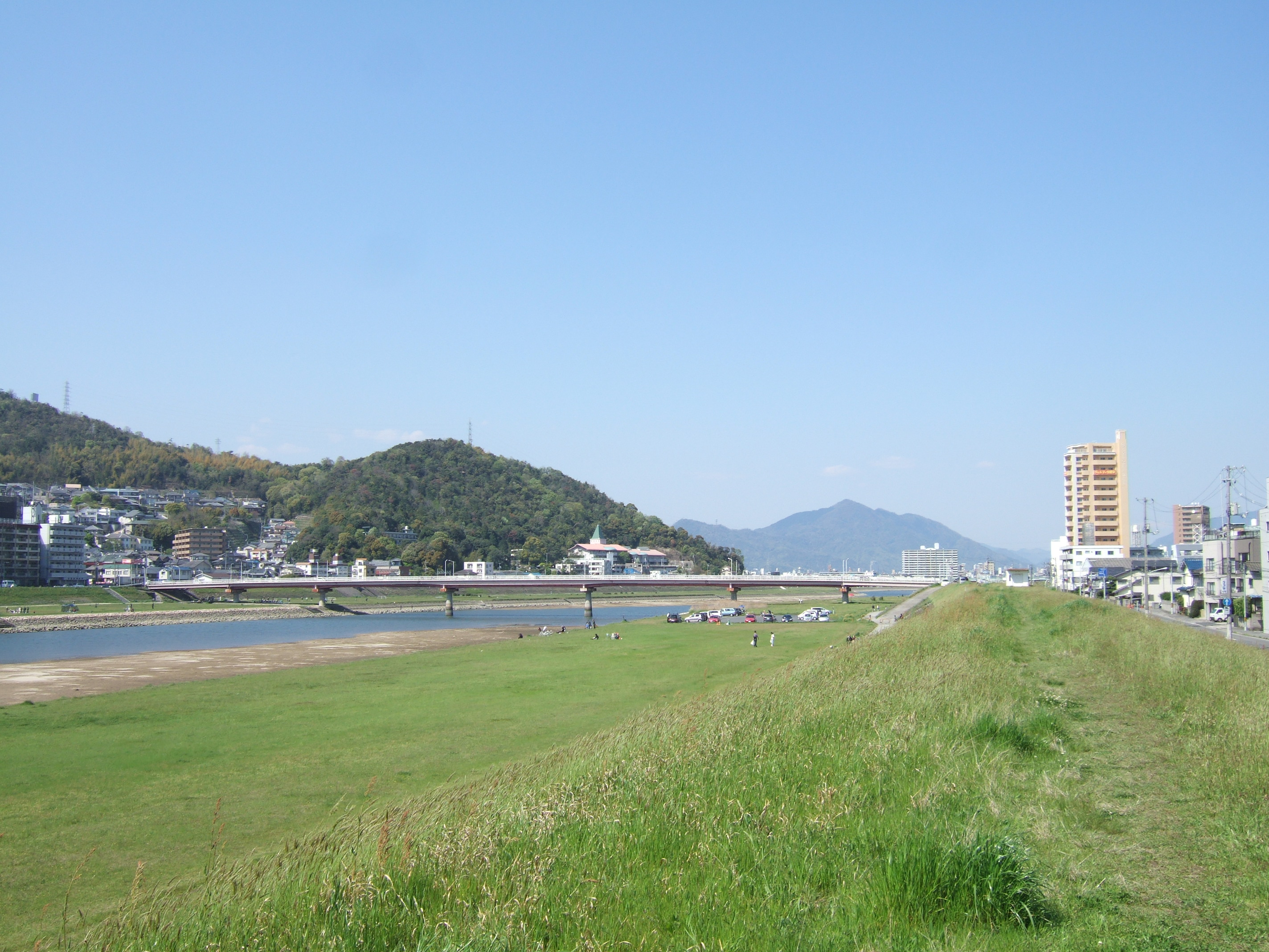 Mitaki Bridge laid in Ohta River Diversion Cannel